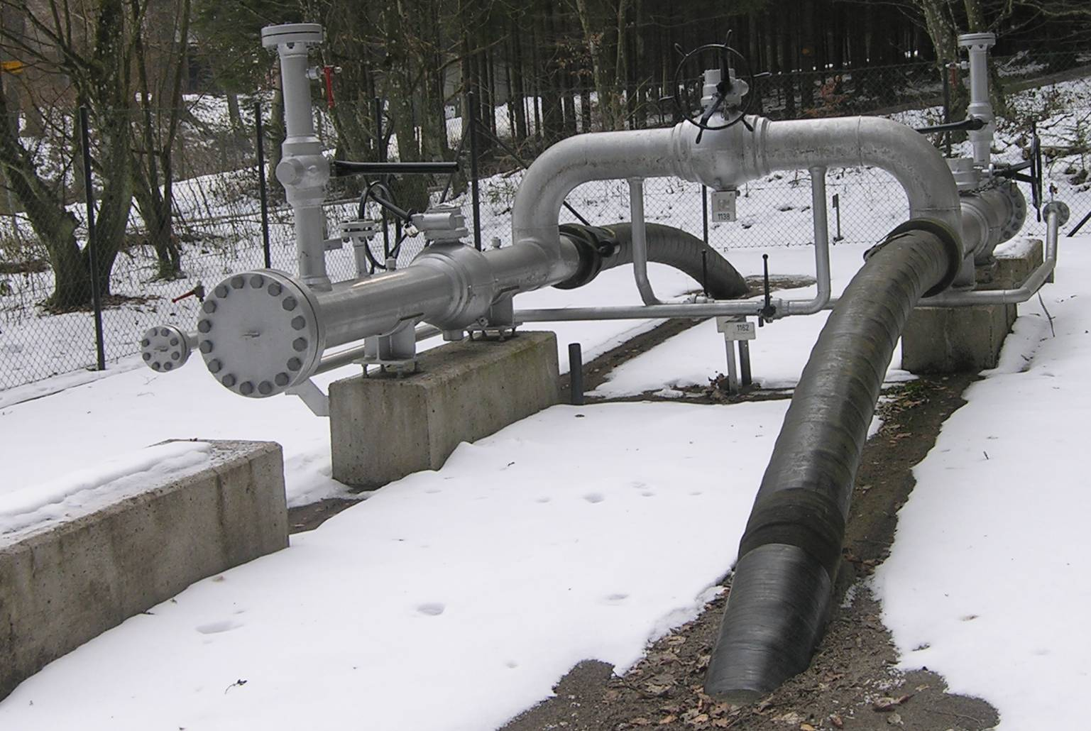 A station on a natural gas pipeline used for the loading and unloading of pipeline inspection gauges, commonly known as "pigs". Photographed near Dubendorf, Switzerland. Additional annotations from the English Wikipedia by users Cadmium, Mannings, and BrutonD: This is station for loading or unloading pigs, the pigs are used for cleaning out or inspecting pipelines. This station is designed to receive pigs from the upstream section and launch pigs into the downstream section, with a cross-over for the fluid to flow from one section to the next. The pre-installed thrust blocks (those empty concrete rectangles in front of the blank flanges) are to support a (temporary) pig-trap which is bolted on to the pipeline in place of the blind flange. The pig-trap normally includes a section of larger diameter pipe to allow the pig to come to a gentle stop with flow passing around the pig. After closing the valves for isolation, the pig can be removed via a quick opening closure (like a flange) on the end of the pig-trap. The fact the pig-traps are not present means that this pipeline is not pigged regularly.